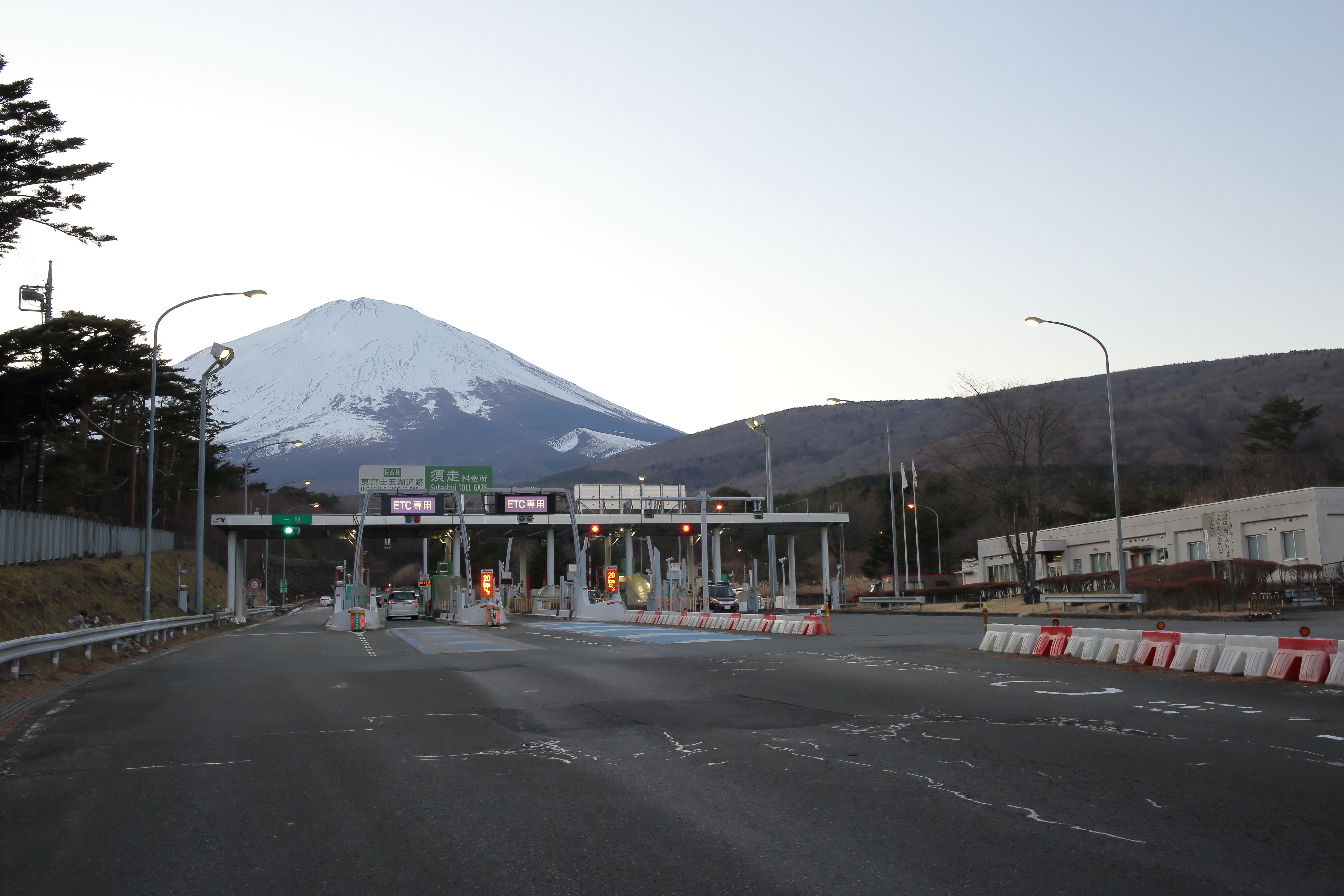 Subashiri Tollgate. Fuji can be seen behind.